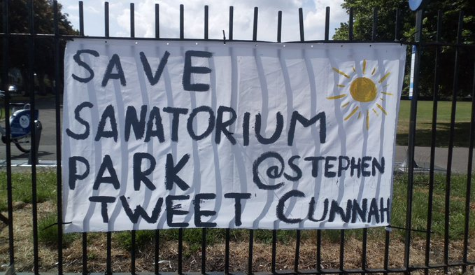 Protest Sign, Jubilee Park, at the junction between Leckwith Road and Broad Street, Cardiff